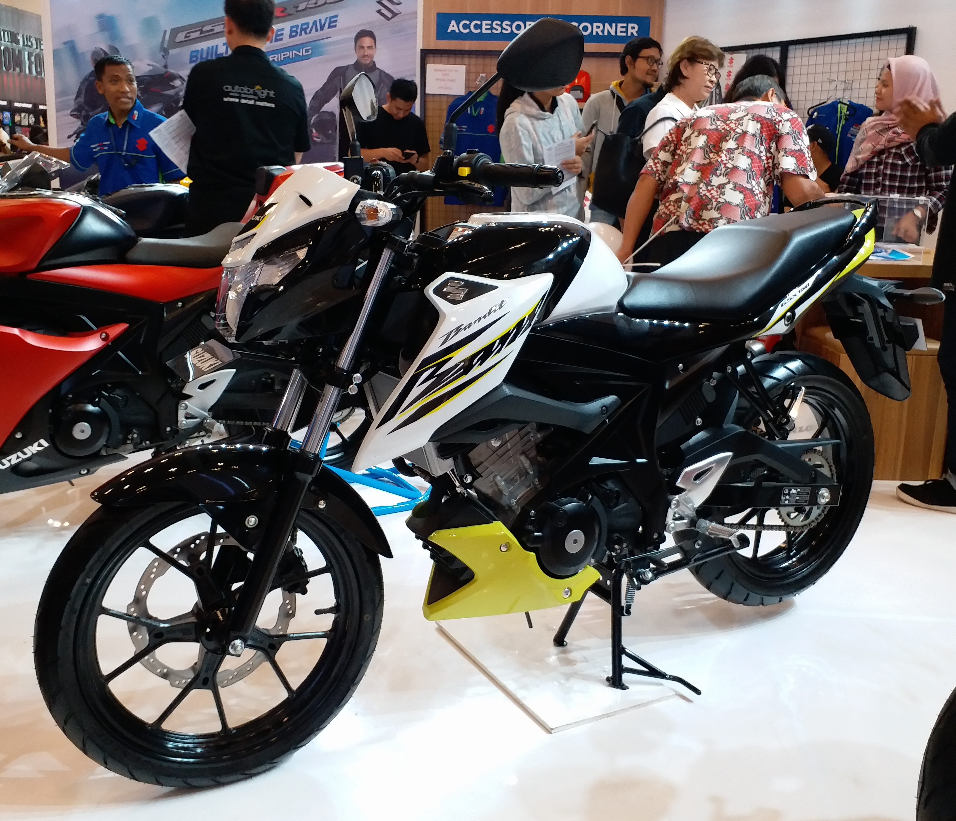 A Suzuki GSX150 Bandit photographed in Gaikindo Indonesia International Auto Show 2018, South Tangerang, Indonesia on August 9, 2018.